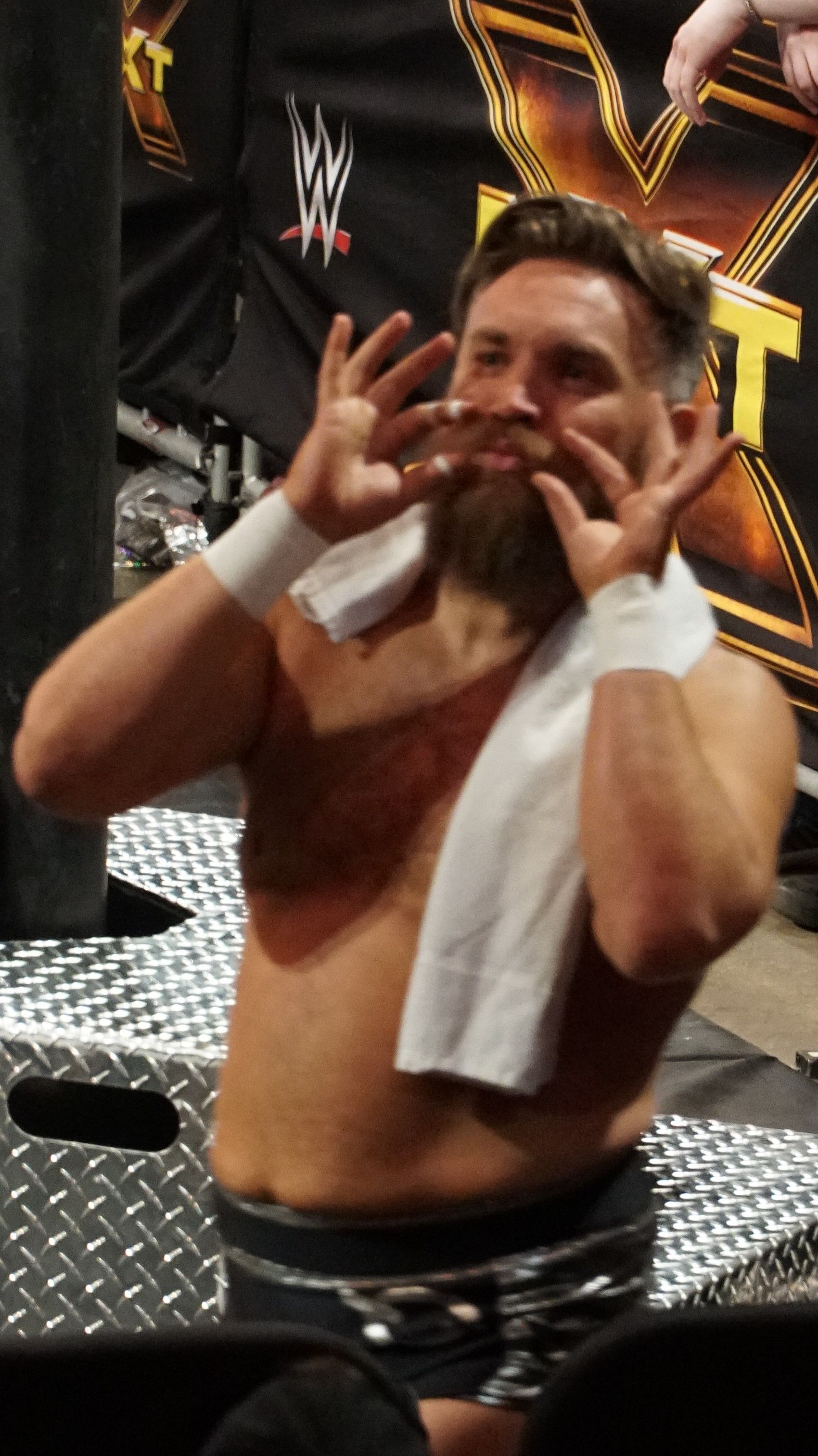 Trent Seven at WWE Axxess in April 2018.